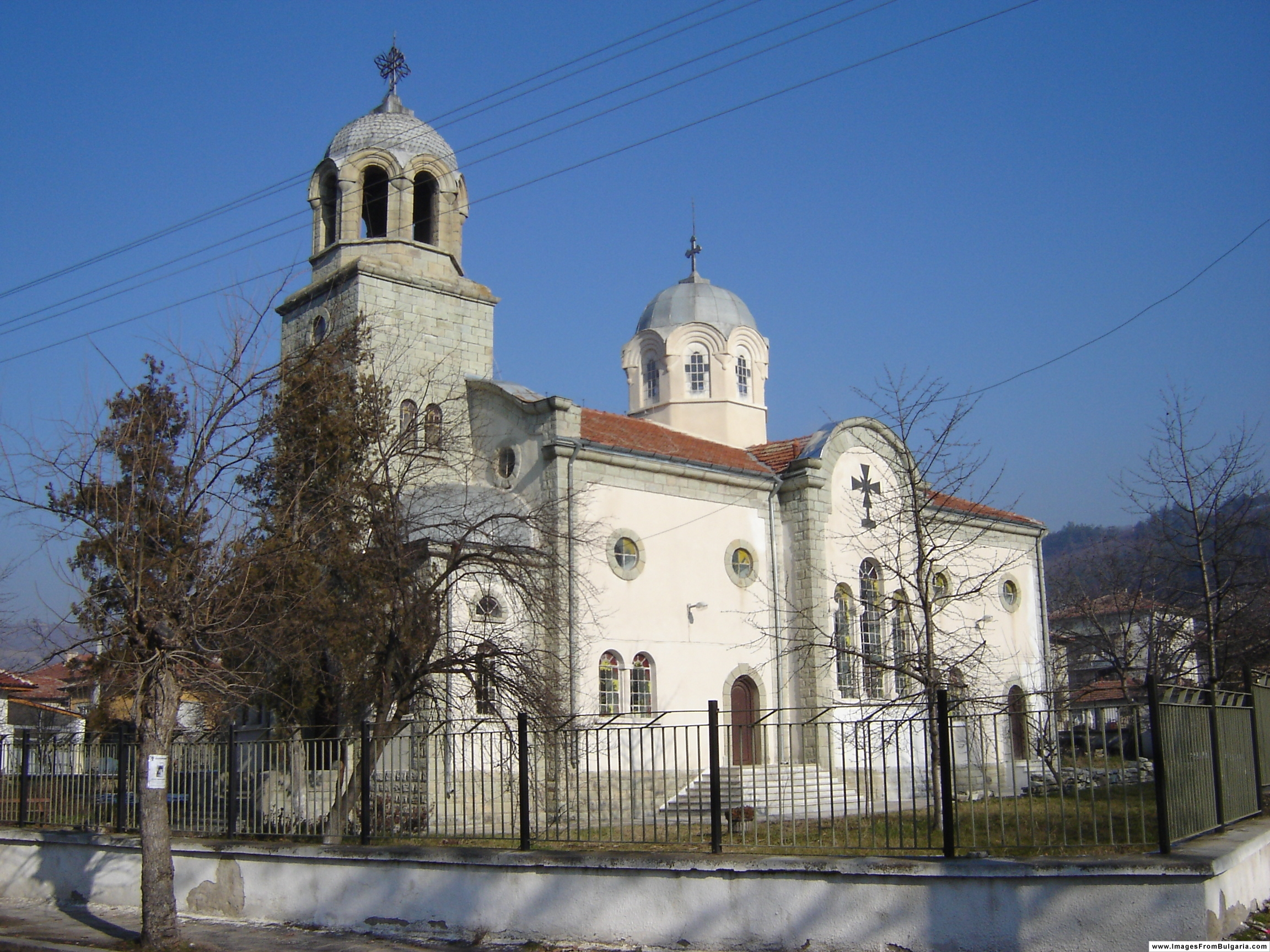 The church